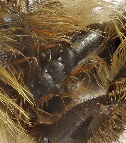 Andrena nigroaenea with Meloe violaceus, Nant Gwrtheyrn, North Wales, May 2016